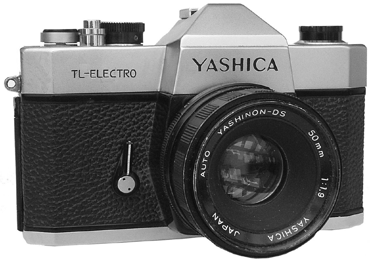 The Yashica TL-Electro, built between 1972 and 1975, took M42 screw-mount lenses.